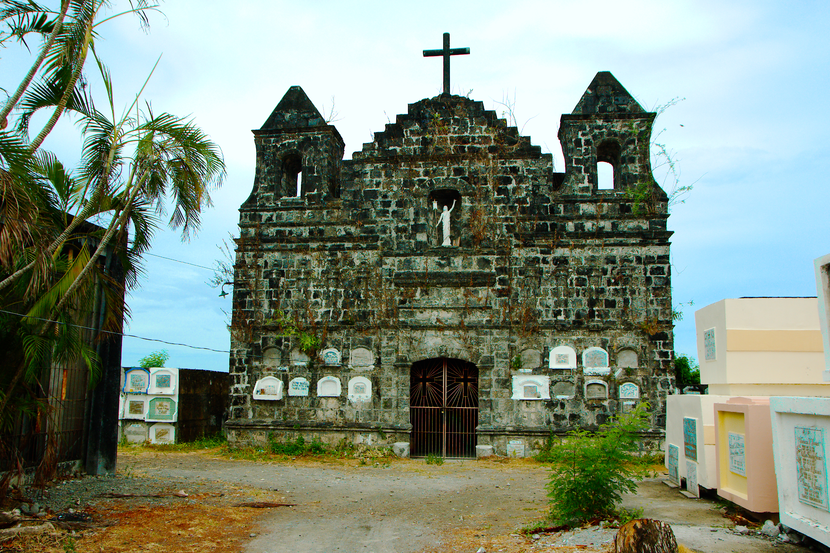 Hamtic Cemetery Chapel, Hamtic, Antique. The cemetery is located along the Hamtic-San Jose road before kilometer KM90 about 800meters from the Hamtic town center.